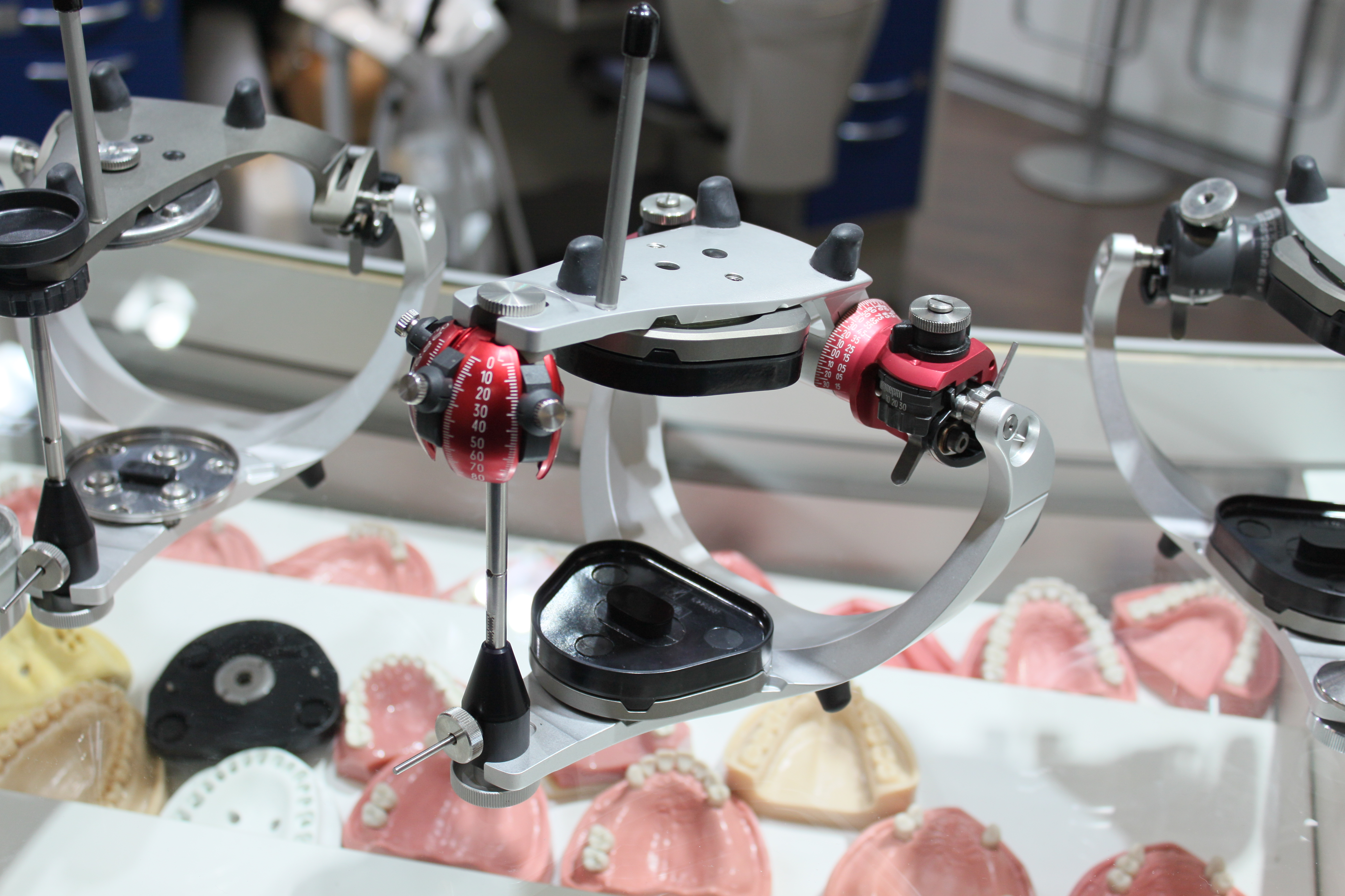 International Dental Show, Cologne, Germany